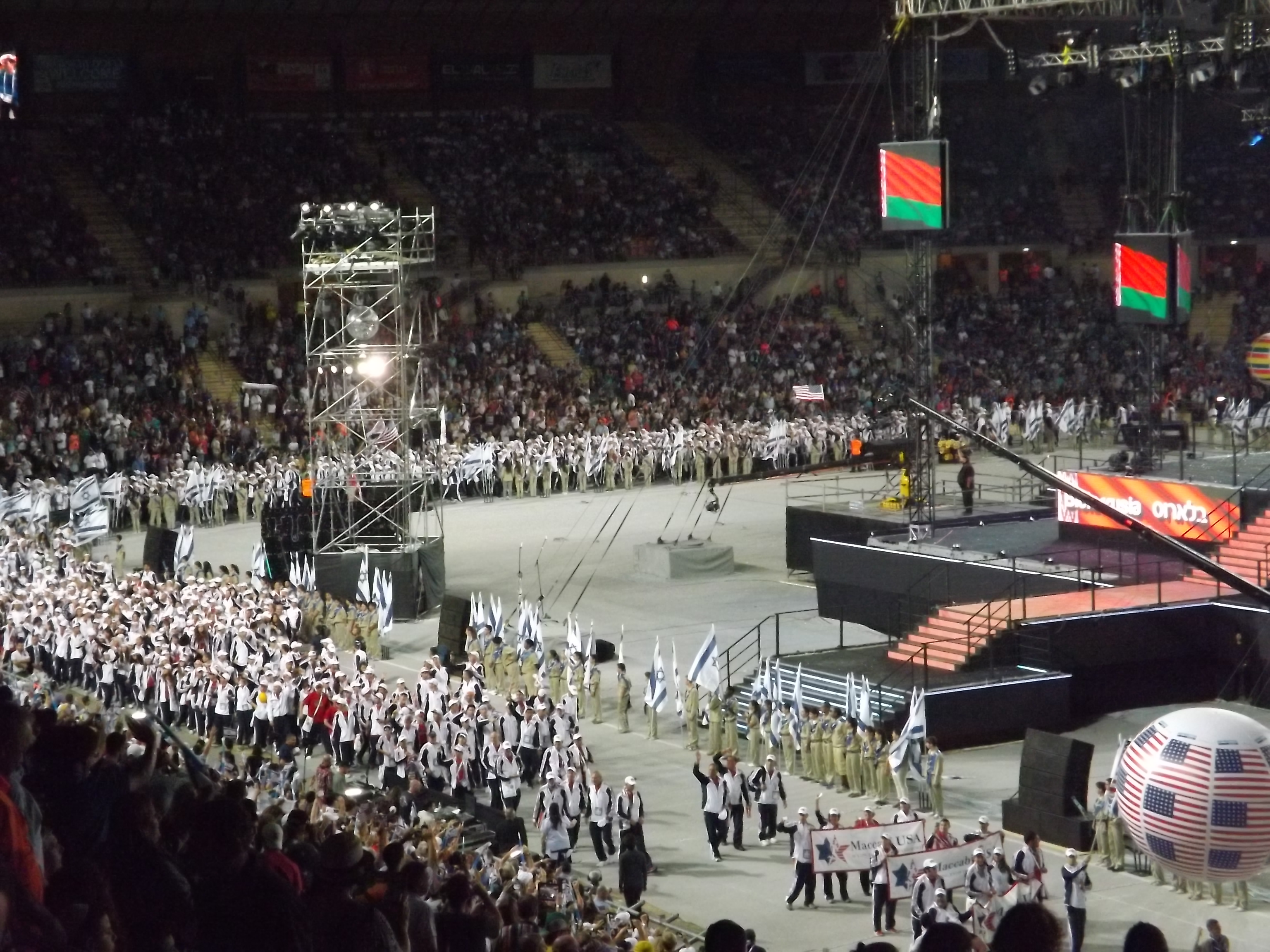 The United States delegation to the 19th Maccabiah with 1106 people, the largest of all the delegations (Israel excluded).